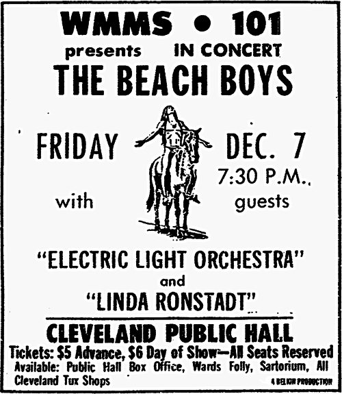 Print ad for concert featuring The Beach Boys